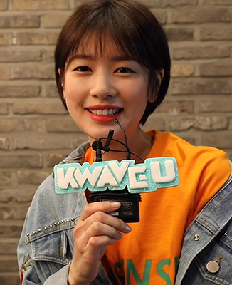 Jung So Min behind the scenes of a photoshoot for Kwave Magazine